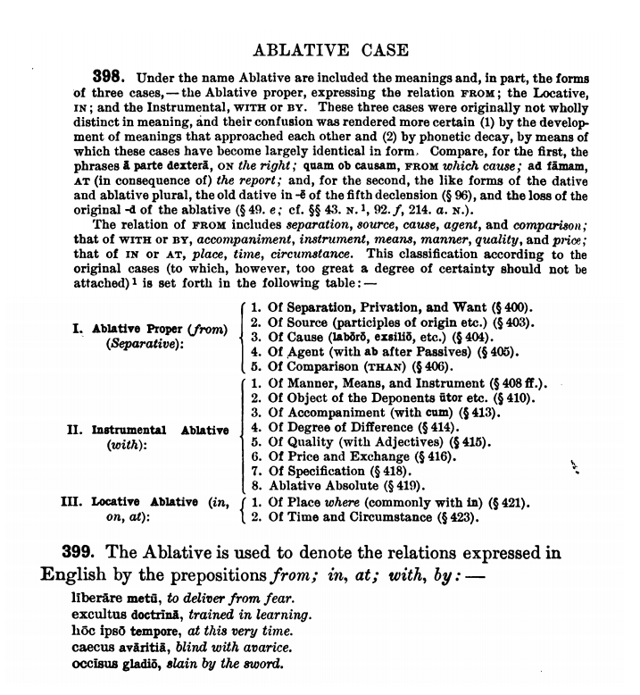 Paragraphs 398-399 of Allen and Greenough's New Latin Grammar for Schools and Colleges J. B. Greenough, G. L. Kittredge, A. A. Howard, Benj. L. D'Ooge, Ed. (1903). I cut, cropped, and pasted from a public domain PDF to create this image across a page break.